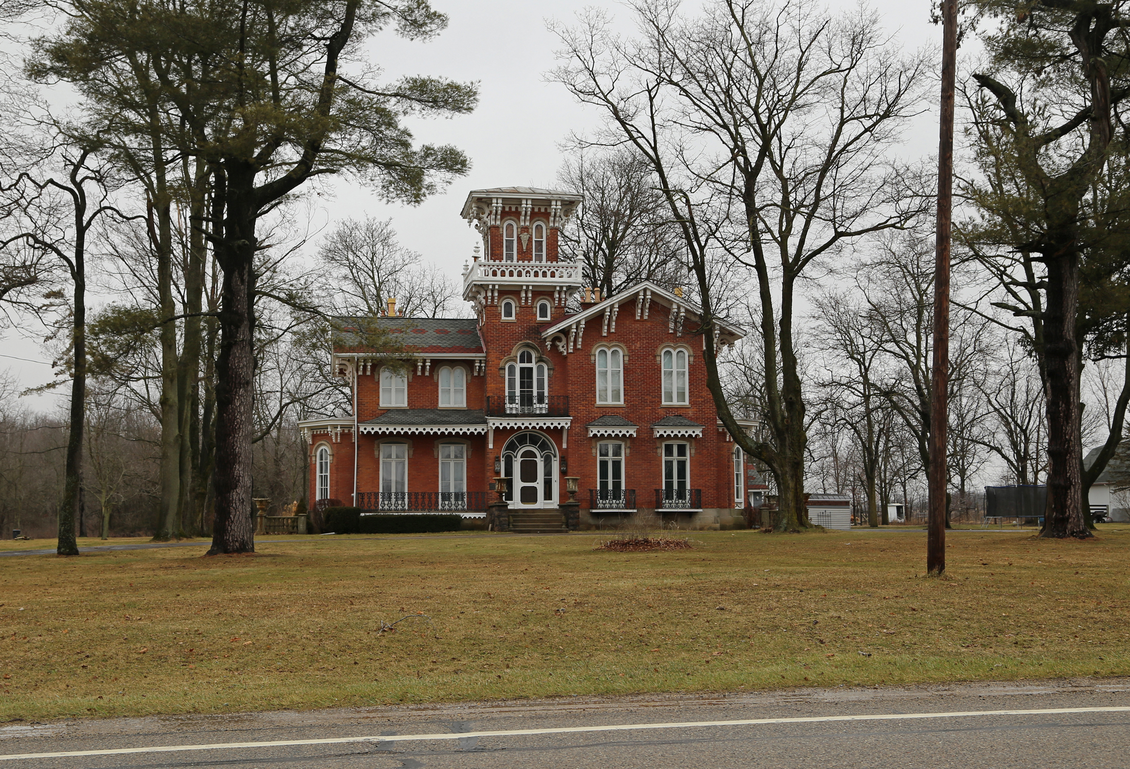 Front view of the National Register-listed William Treadwell House, built in the 1860s in rural Hillsdale County, Michigan.